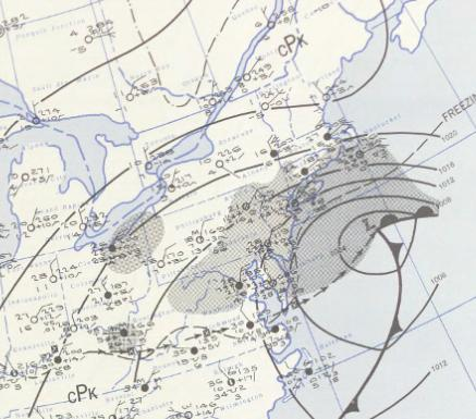 Weather map for March 19, 1956, depicting a nor'easter.